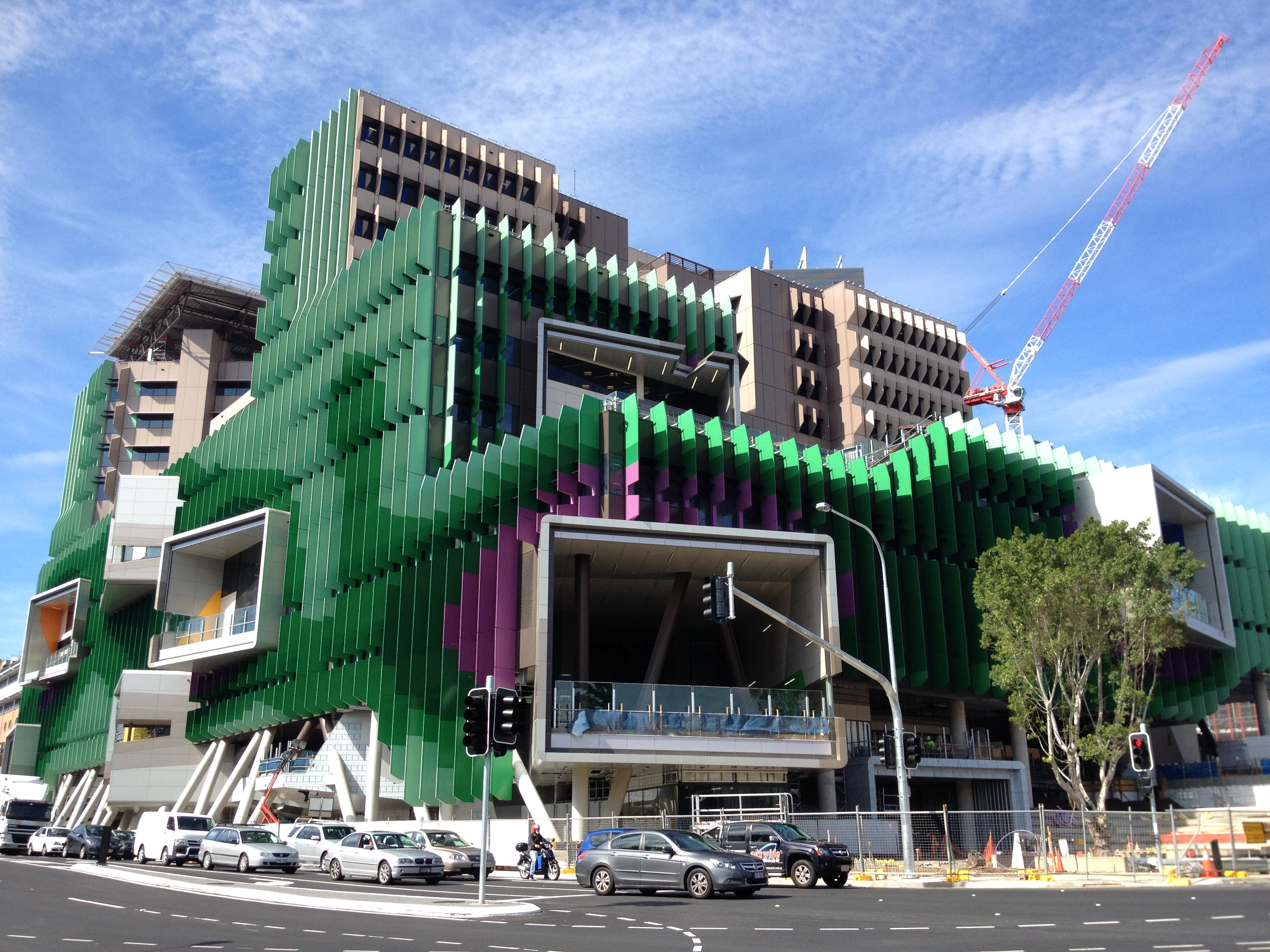 Lady Cilento Children's Hospital (Queensland Children's Hospital) under construction in Brisbane, March 2014.